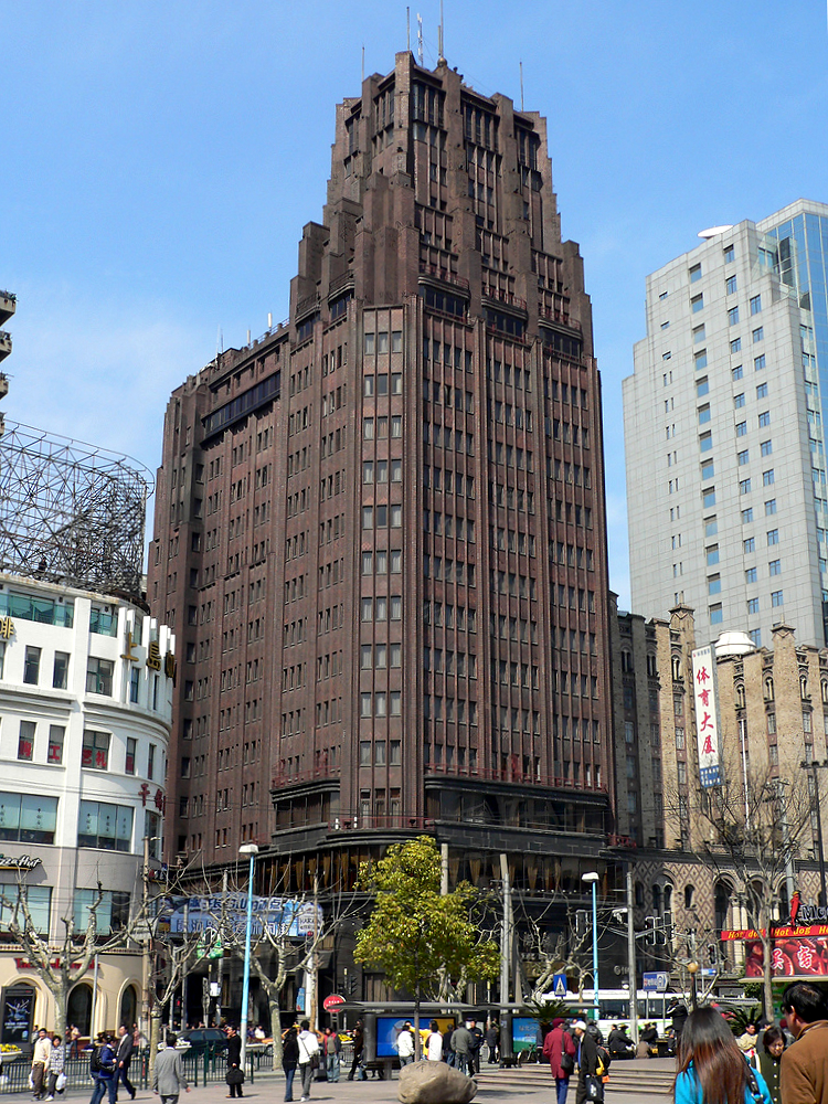 Shanghai Park Hotel in 2007